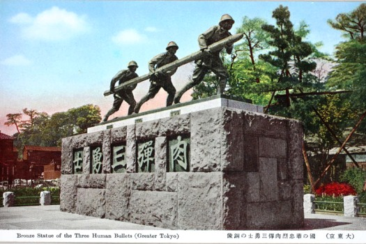 Postcard of the Statue of the Three Human Bullets, Seisho-ji Temple in Atago, Tokyo